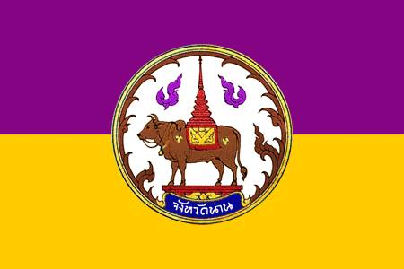 Flag of Nan Province